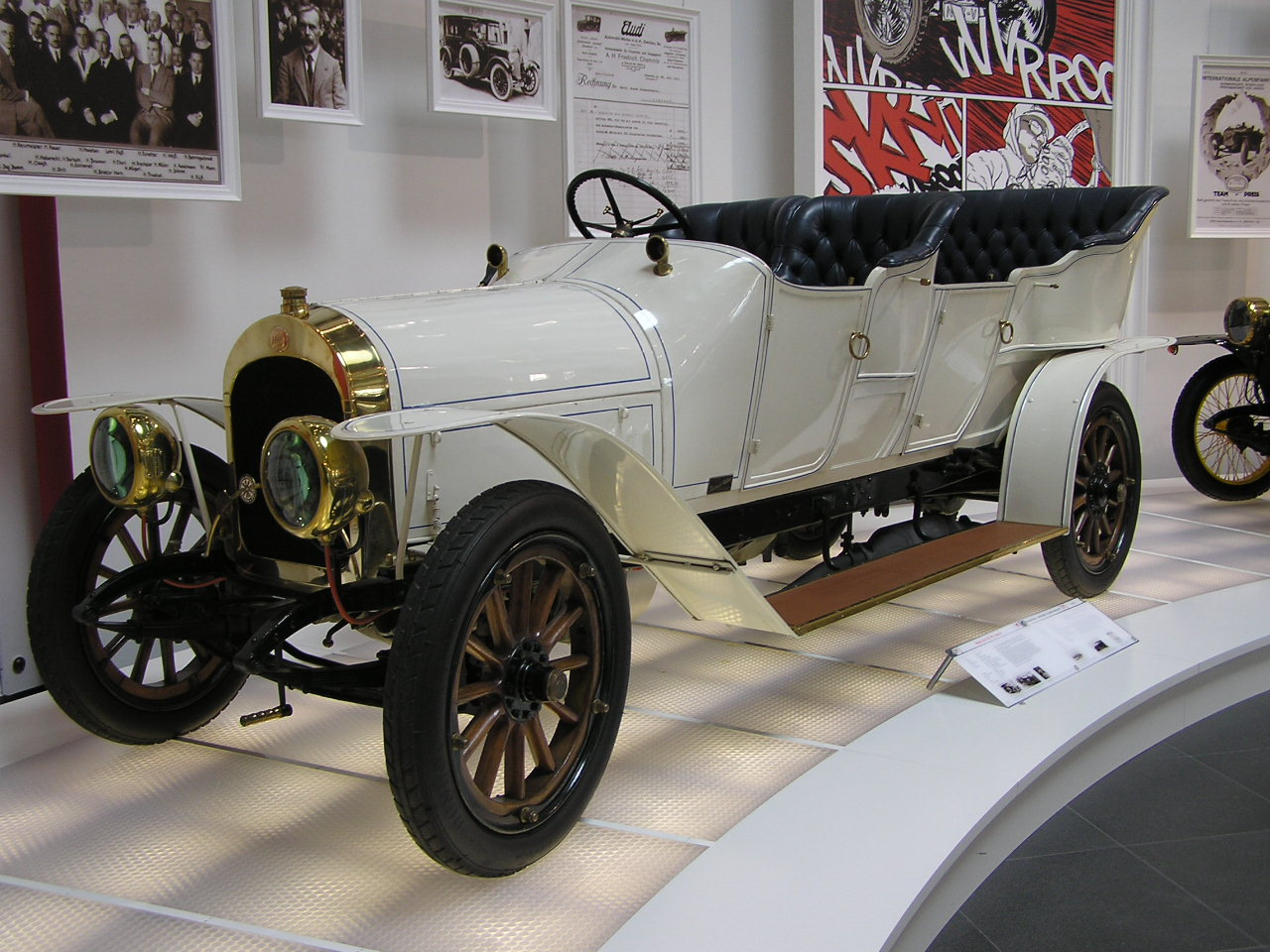 Audi Typ E (Phaeton)